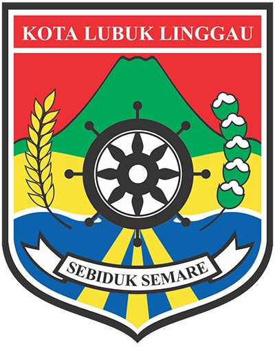 Lambang (Coat of Arms) of Kota (City) Lubuklinggau, Provinsi Sumatera Selatan (South Sumatra Province), Indonesia